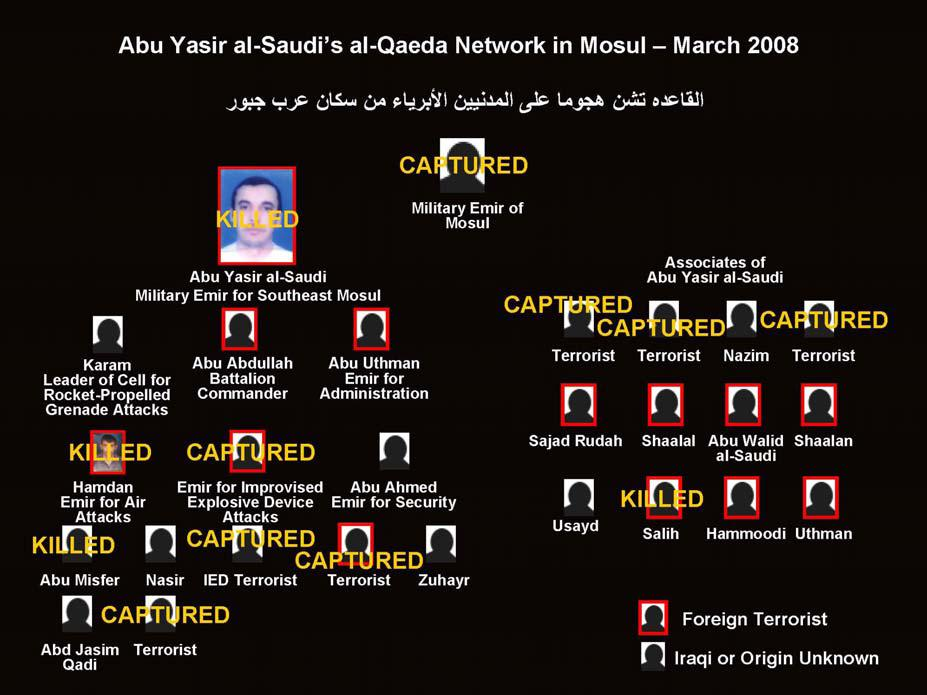 Al Qaida in Iraq Network, March 2008 (US military press briefing)